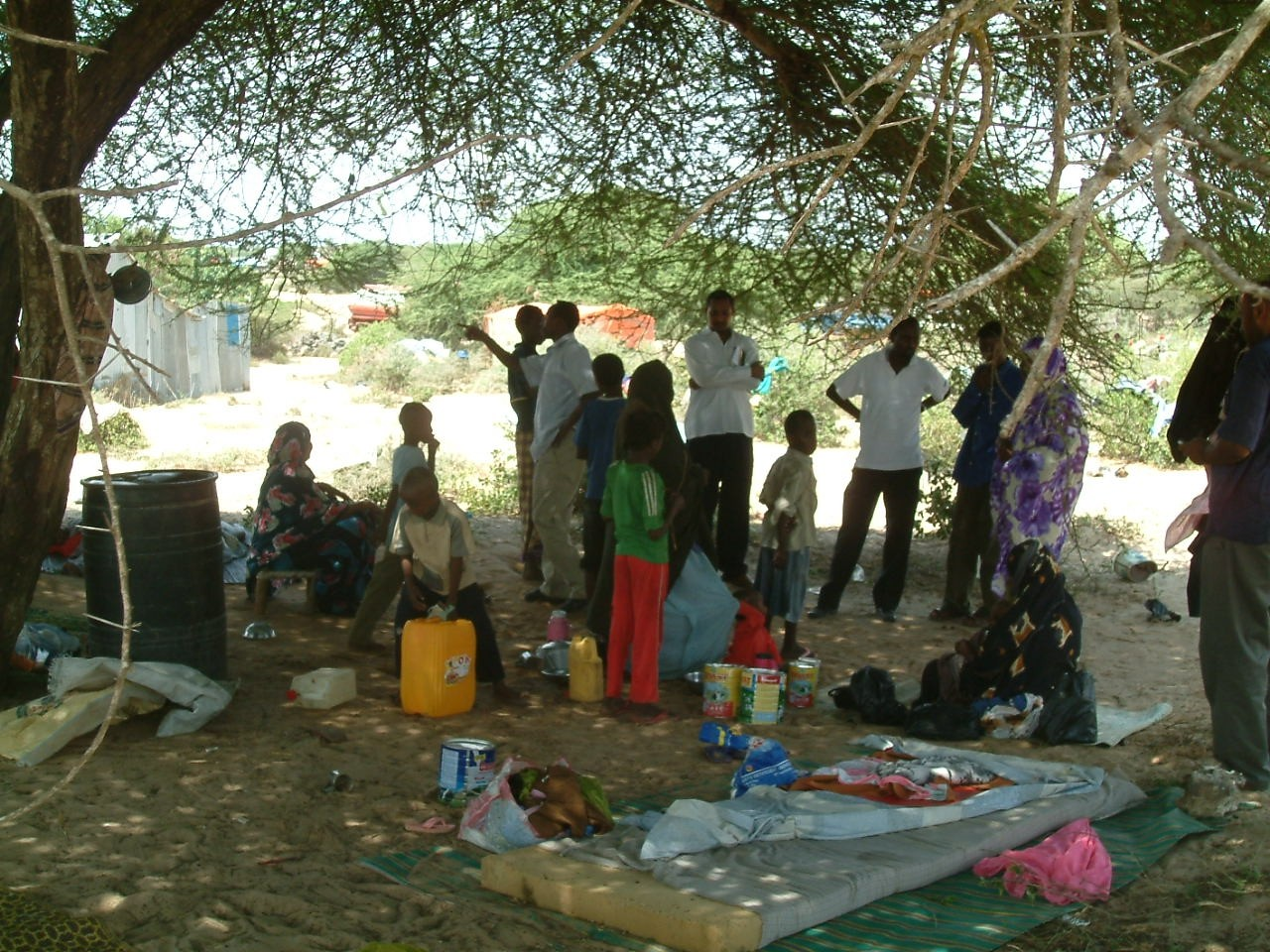 Internally displaced people in Marka, Somalia